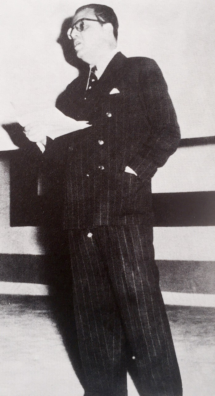 Discurso inaugural de Mariano Picón Salas de la Facultad de Filosofía y Letras de la Universidad Central de Venezuela.